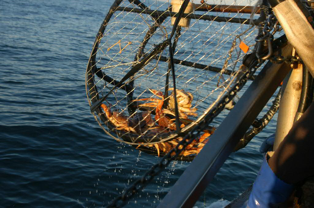 Really fresh crab (Dungeness Crab Cancer magister)